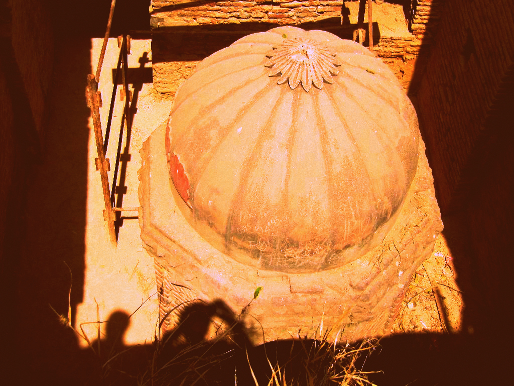 The Temple associated with Loh in Lahore Fort, viewed from top